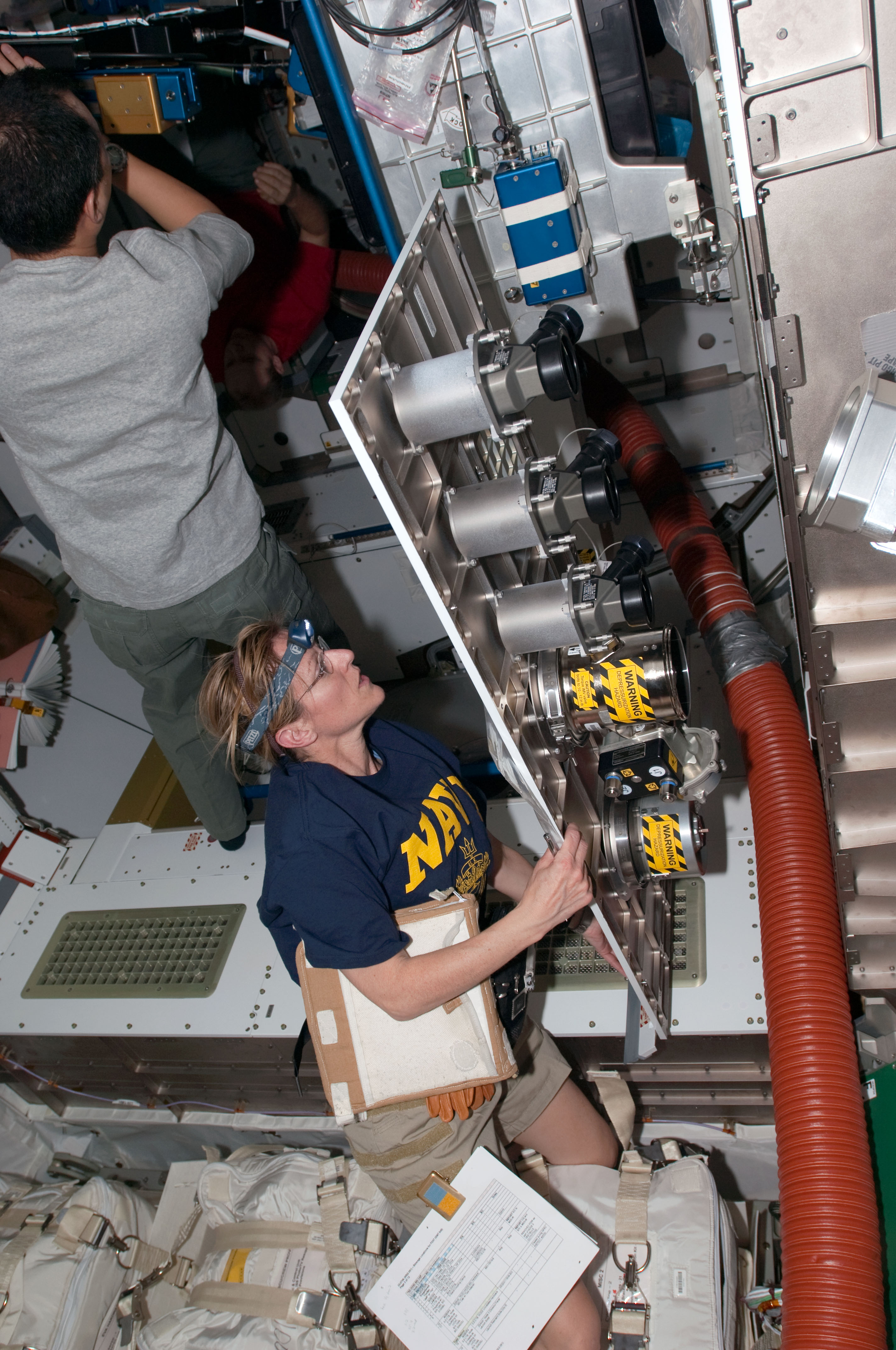 NASA astronaut Kathryn Hire, STS-130 mission specialist, works with hardware in the newly-installed Tranquility node of the International Space Station while space shuttle Endeavour remains docked with the station. Japan Aerospace Exploration Agency (JAXA) astronaut Soichi Noguchi, Expedition 22 flight engineer, is at left.